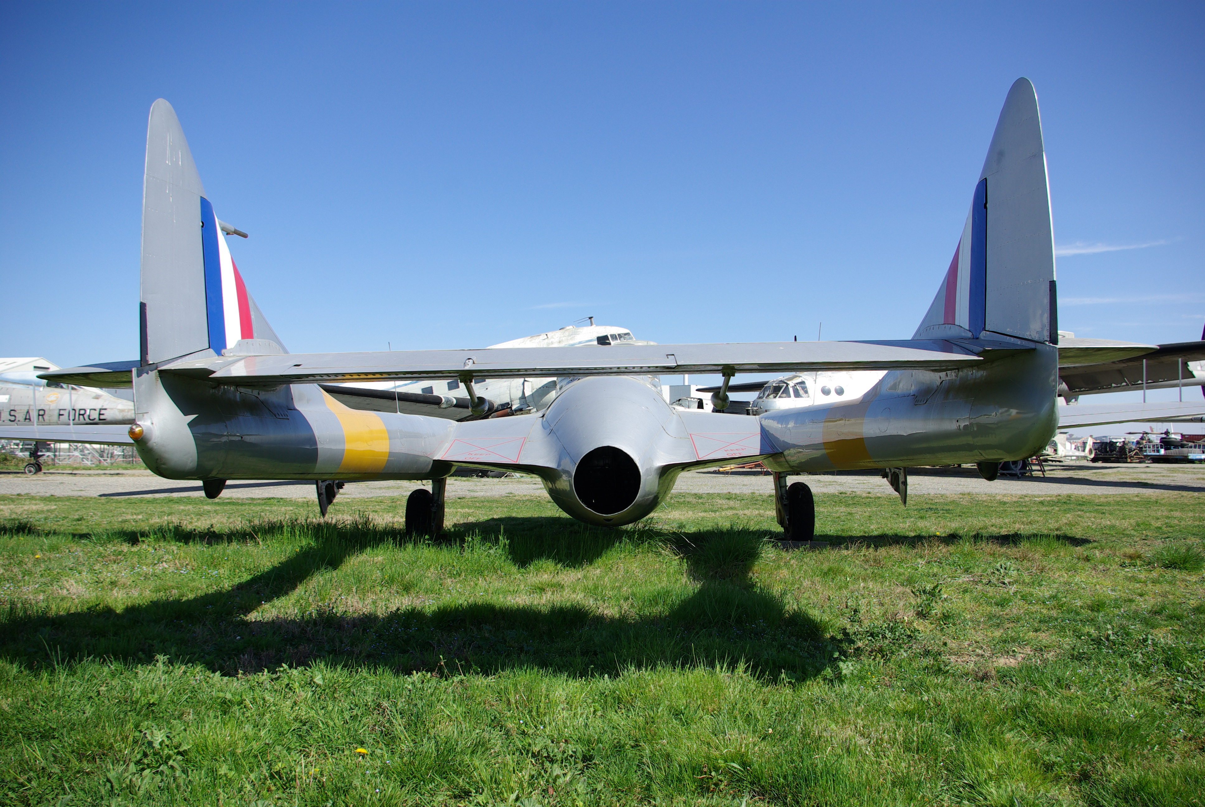 Rear view of a de Havilland Vampire displayed at the Musée des ailes anciennes (Toulouse, France).